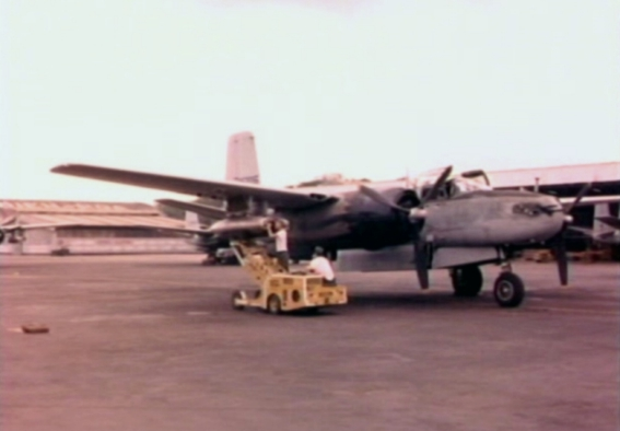 A "Farm Gate" Douglas B-26B bomber armed with napalm bombs at Bien Hoa air base, Vietnam, in November 1962. These aircraft were flown by USAF crews with Vietnamese markings.